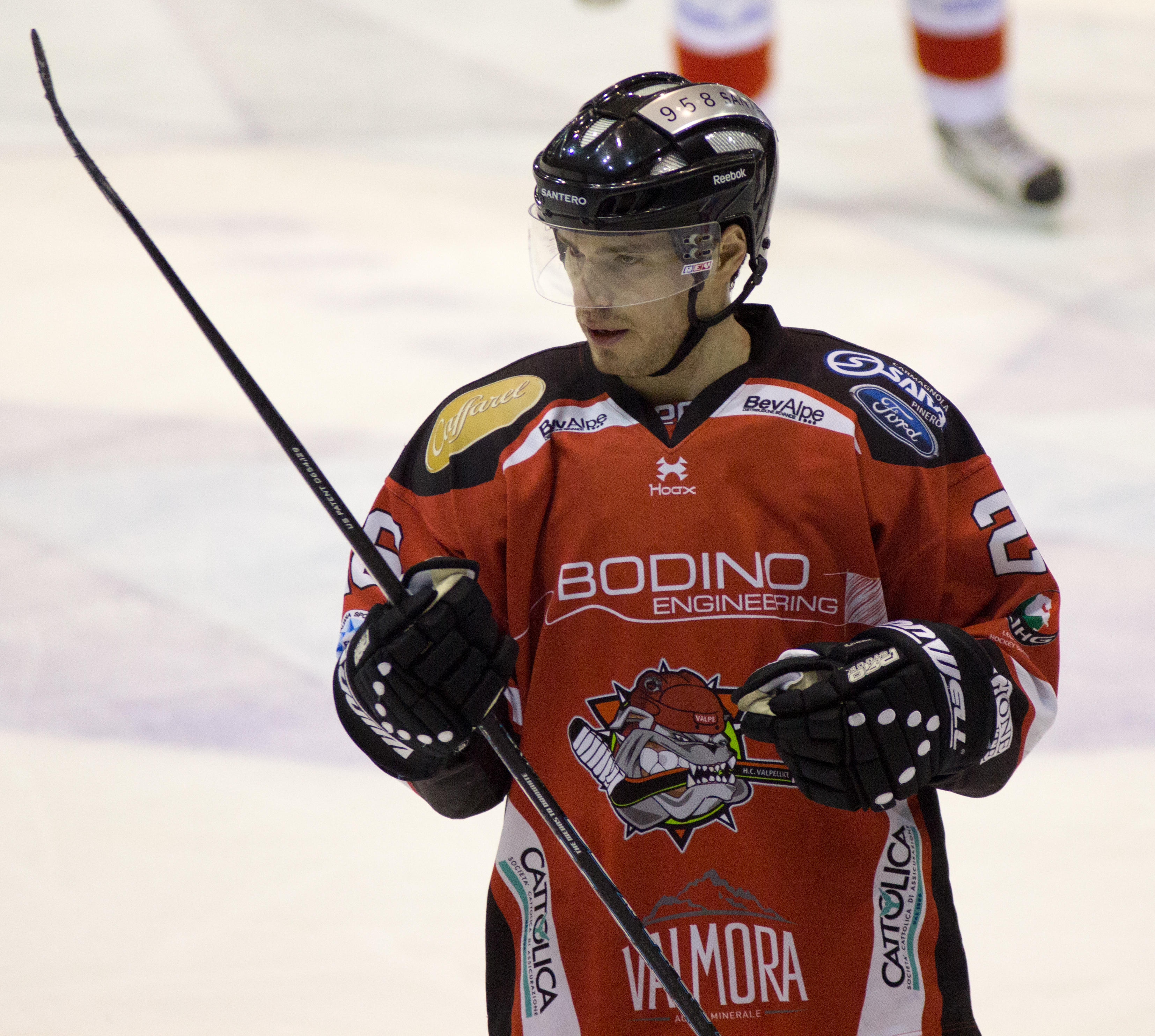 2012-2013 Coppa Italia final between Alleghe Hockey and HC Valpellice played in Torino on 13 January 2013